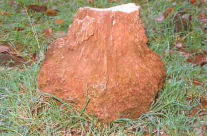 Fossil of a bottle palm at Mandla Plant Fossils National Park